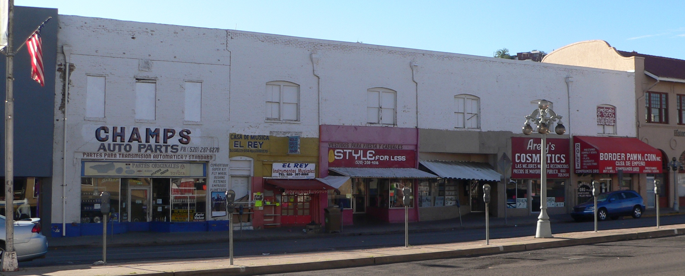 George B. Marsh building, located at 142-154 Grand Avenue in Nogales, Arizona.